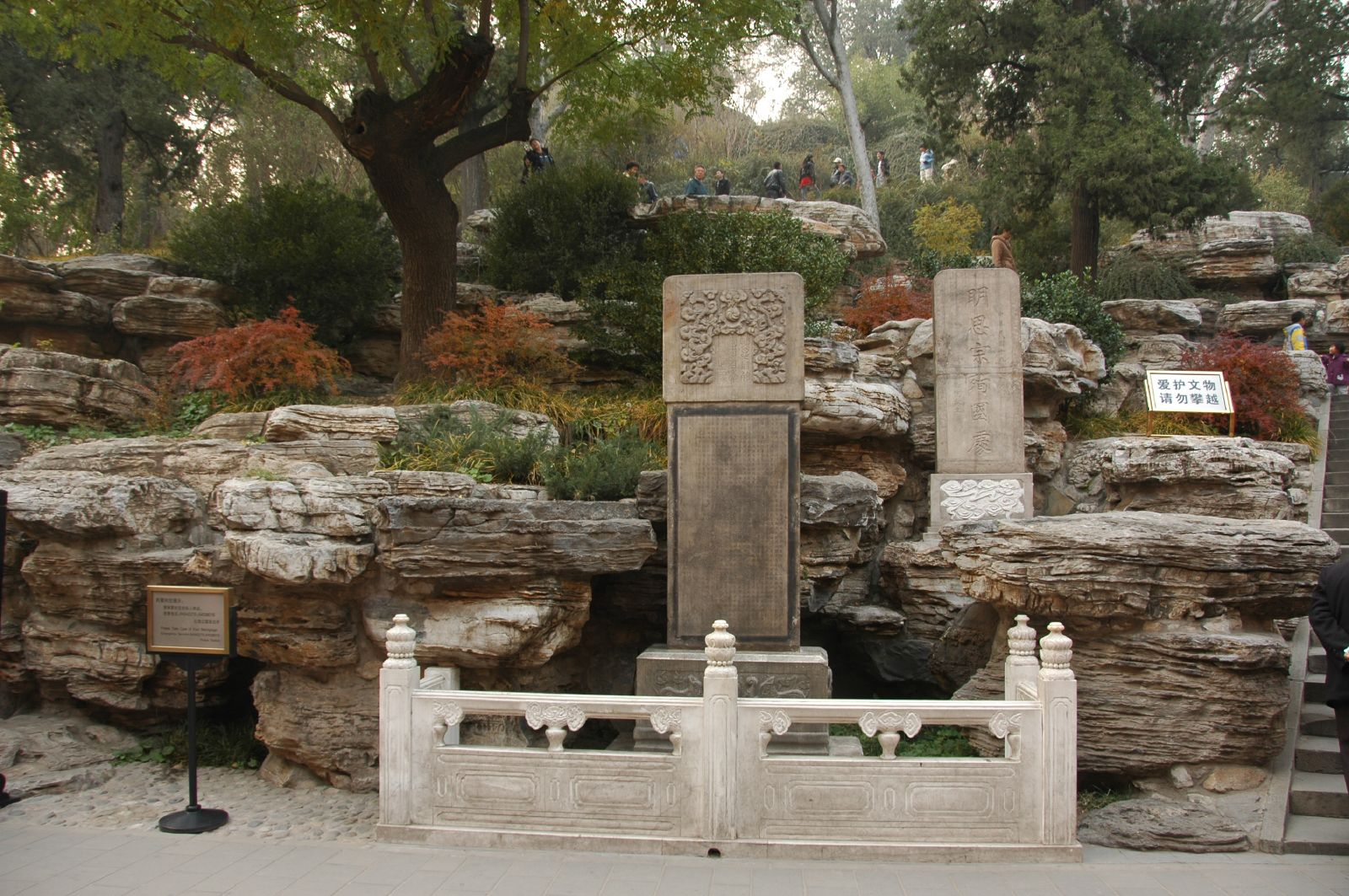 Jingshan Park, with monument stones, in Beijing